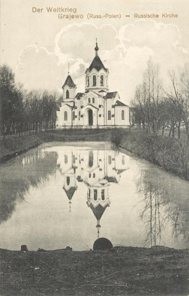 Orthodox church in Grajewo. A postcard from Aleksander Sosna's collection.